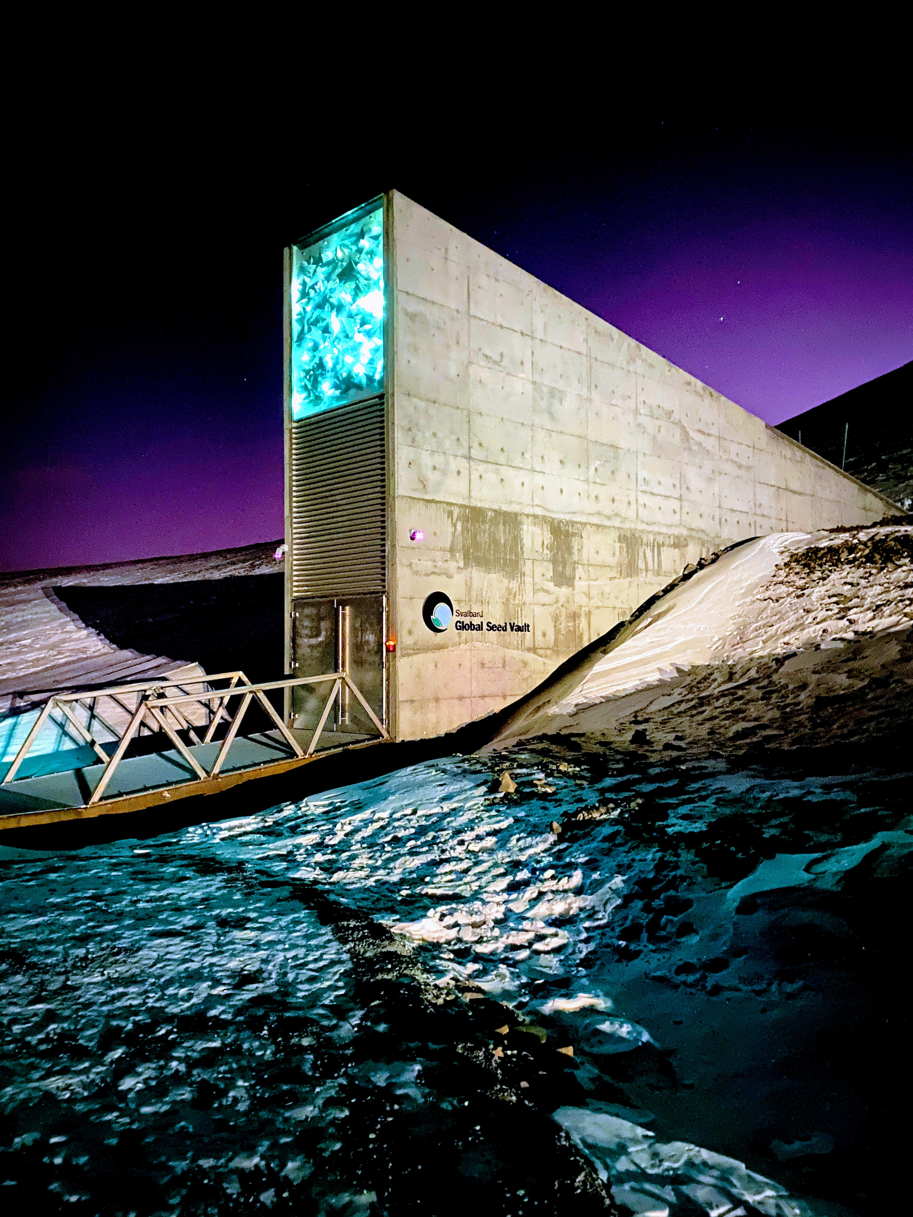 Entrance to the Seed Vault during Polar Night, highlighting its illuminated artwork